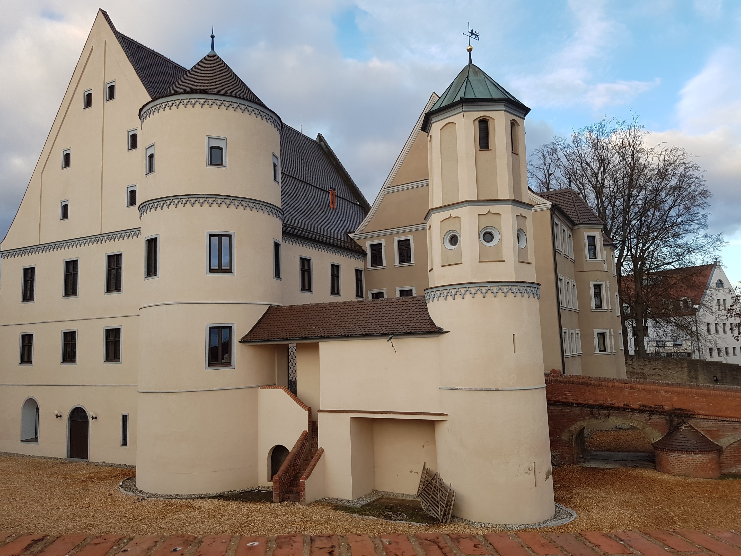 City of Wertingen